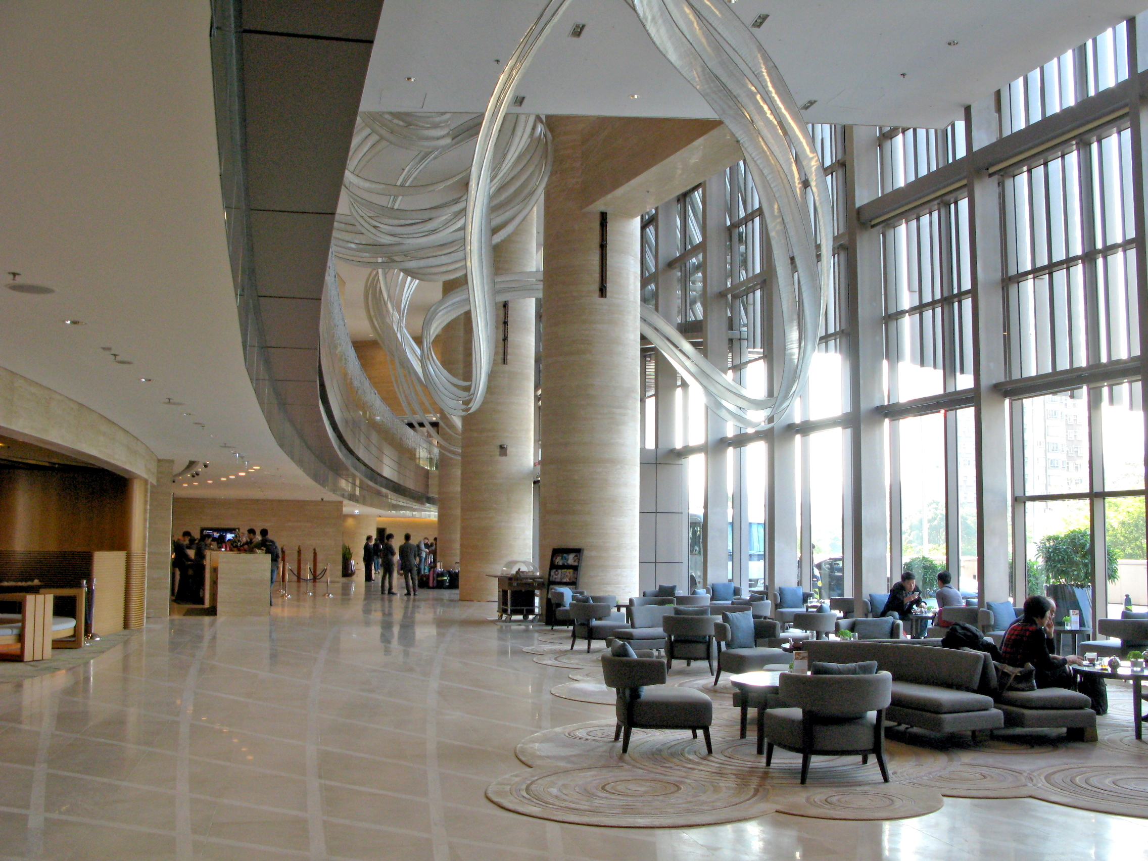 Courtyard by Marriott Hong Kong Sha Tin